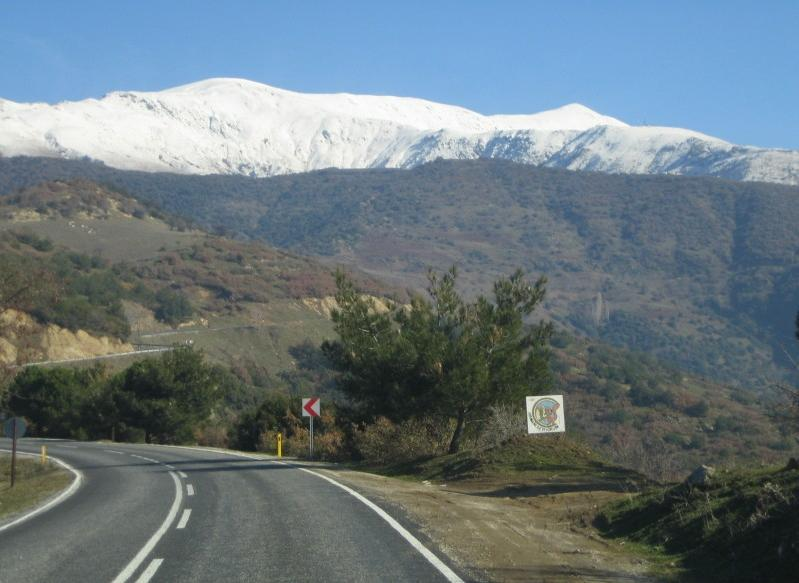 ascent to Mount Bozdağ (Mount Tmolus) in İzmir Province, western Turkey